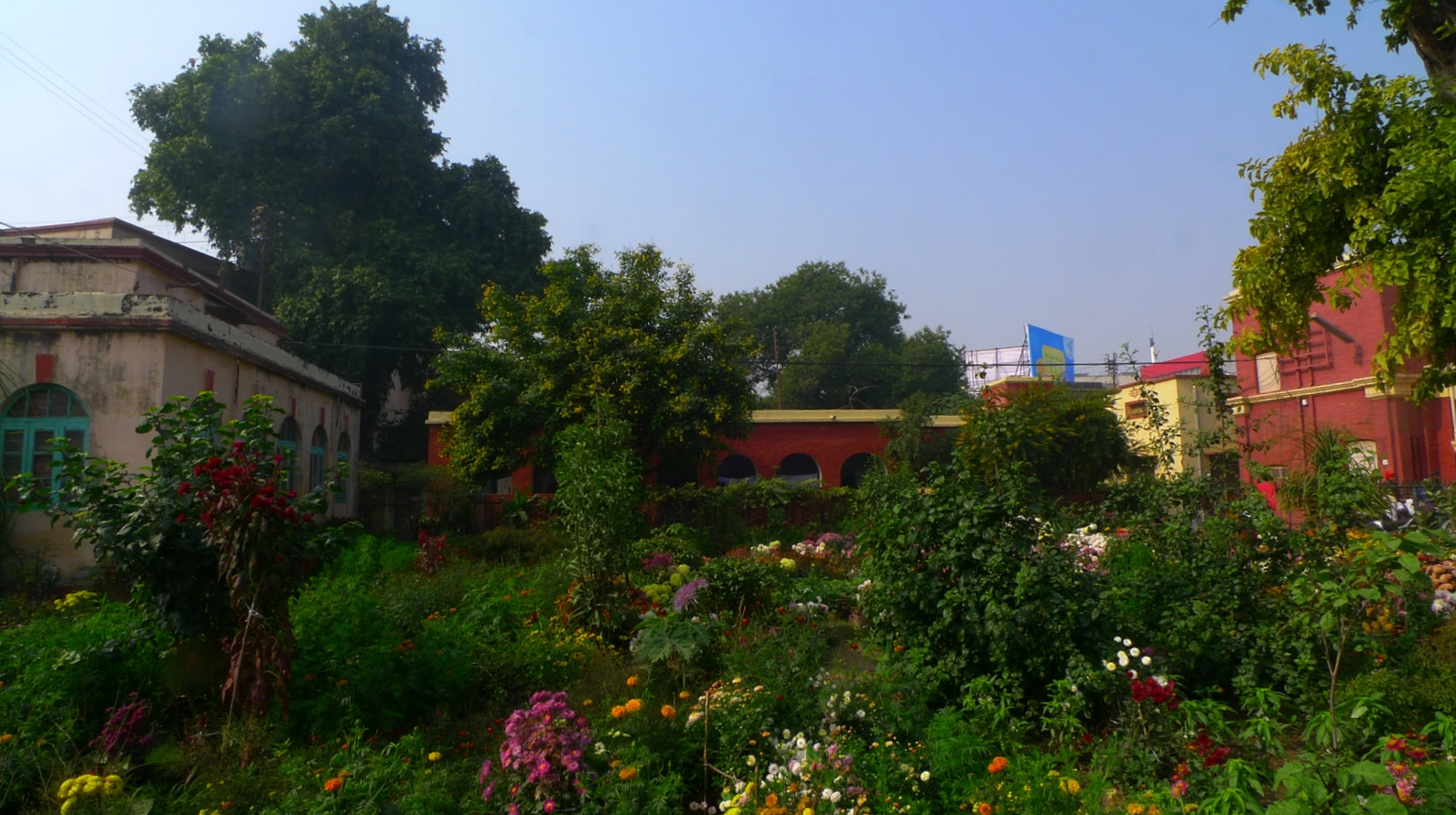 Ramakrishna Mission Gardens